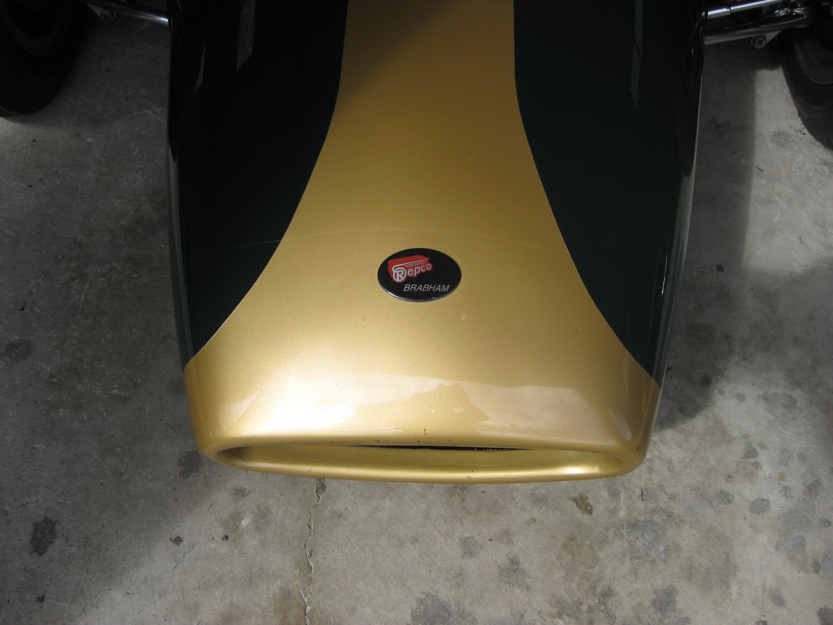 The nose of the Repco Brabham BT6 of Peter Strauss at Mallala Motor Sport Park on 23 April 2011, showing the Repco Brabham badge affixed to it.